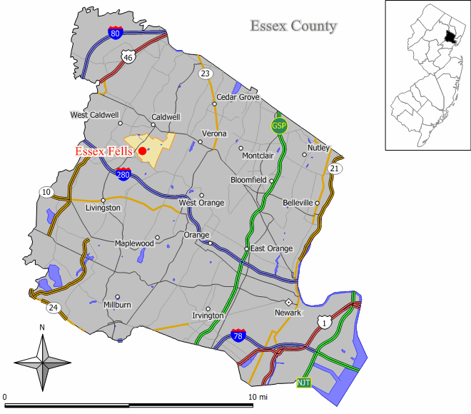 Source: Jim Irwin Original work by Jim Irwin, December 2005.